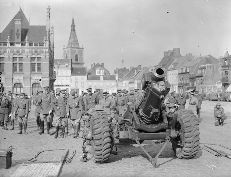 THE BRITISH ARMY IN FRANCE 1940 A 6-inch howitzer being inspected by General Georges and senior officers of the French and British armies at Orchies. NOTE : This version of the photograph has brightness and contrast artificially increased to highlight detail.